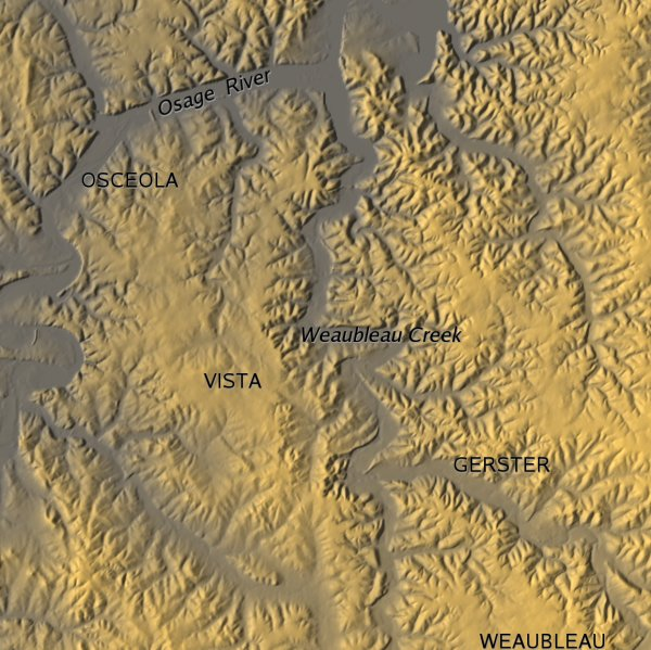 Shaded-relief map of the Weaubleau-Osceola structure in Missouri. (Vertical relief exaggerated by 350 percent.)